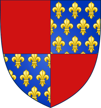 This is the Coat of Arms of Behemond VI, Prince of the Principality of Antioch. I created this file by editing the file "Arms of the Kingdom of France (Ancien).svg" by Sodacan. Here is a link to it: I based my work on the file "Armoiries Bohémond VI d'Antioche.svg" by Odejea. Link: I did this because I thought the Wikipedia Article for the Principality of Antioch would look aesthetically better with a vectorised Coat of Arms of Behemond VI and since nobody had made one yet I decided to do so.